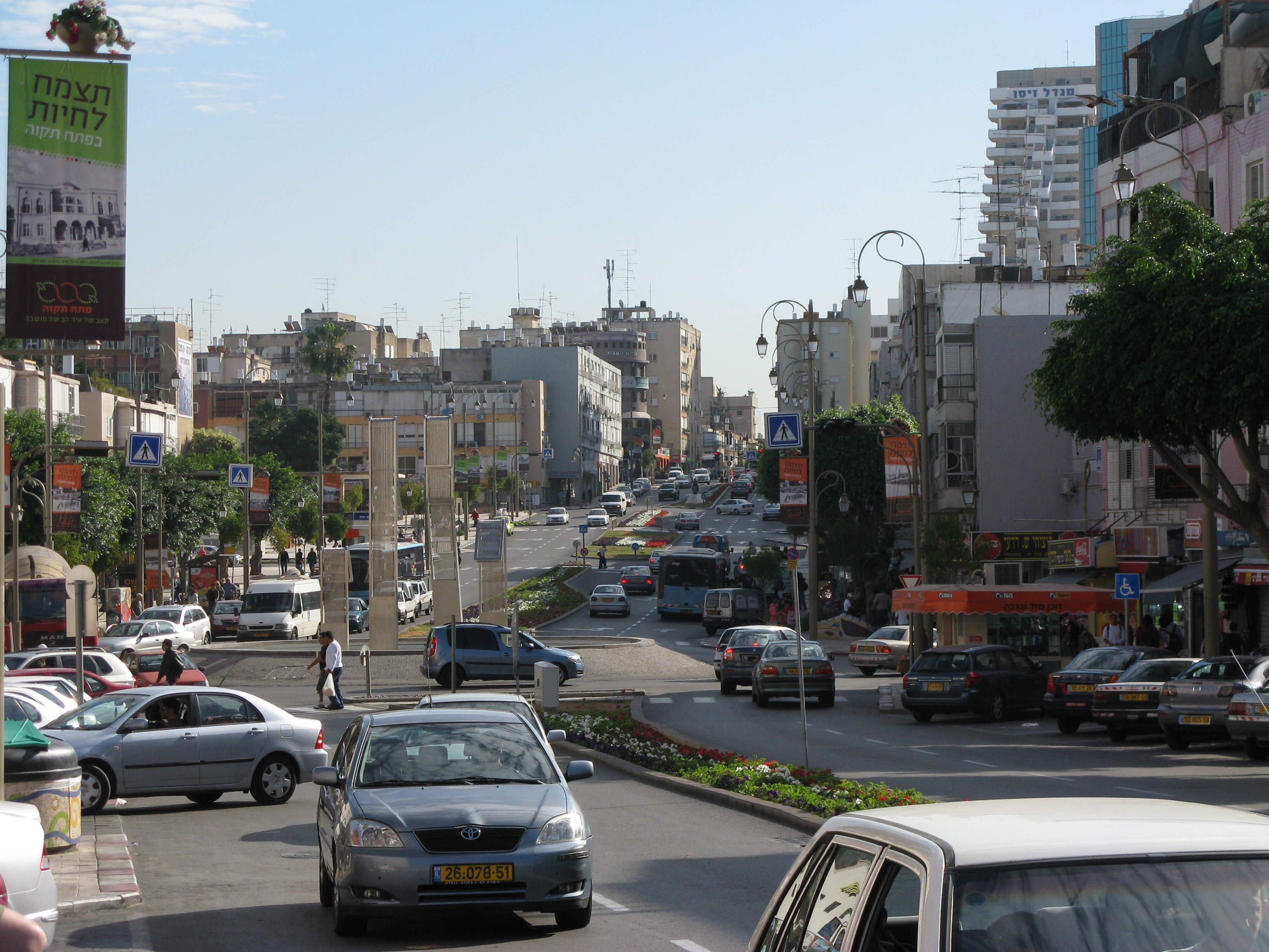 Haim Ozer street after the reconstruction